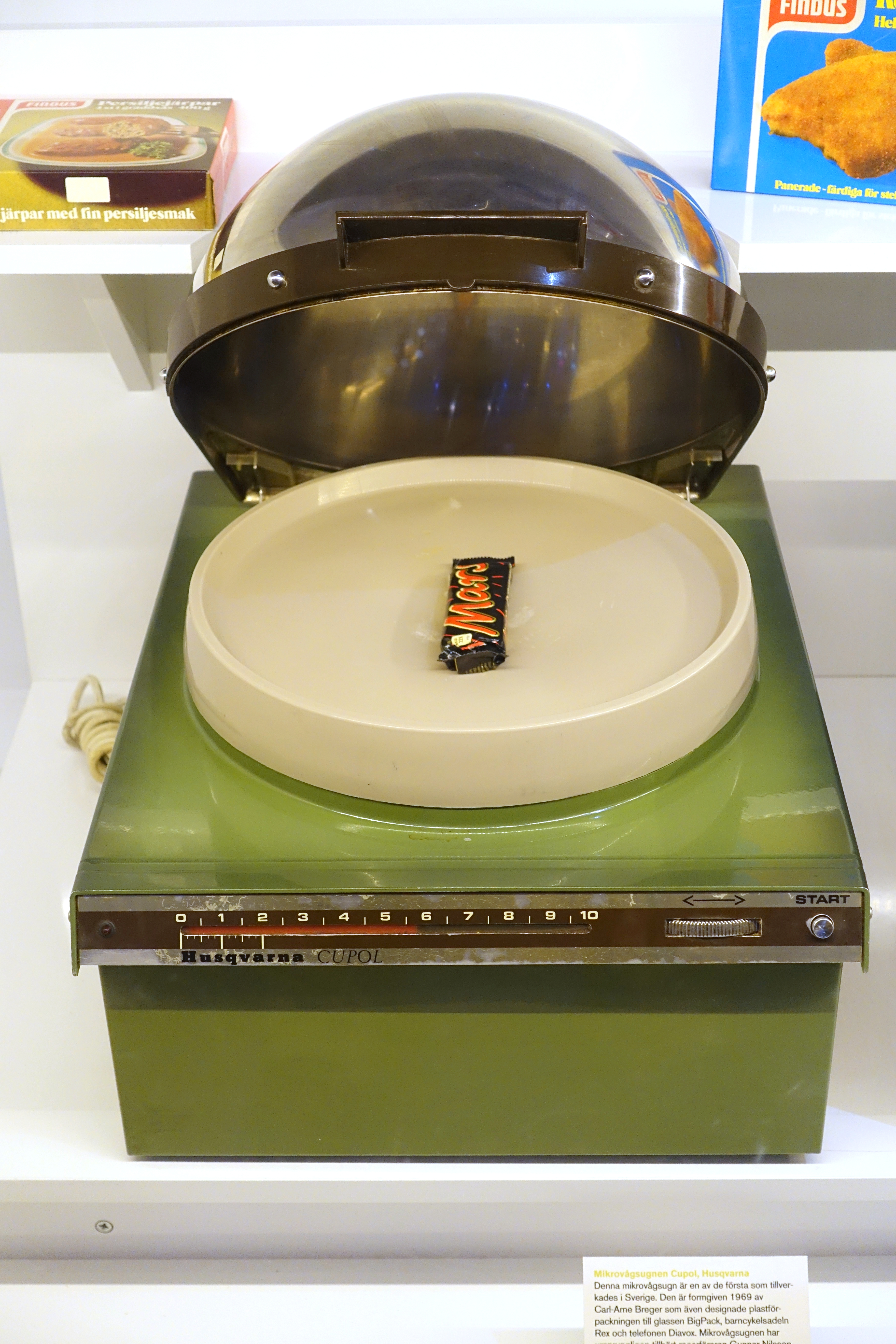 Exhibit in the Tekniska museet, Stockholm, Sweden. This work is old enough so that it is in the public domain.